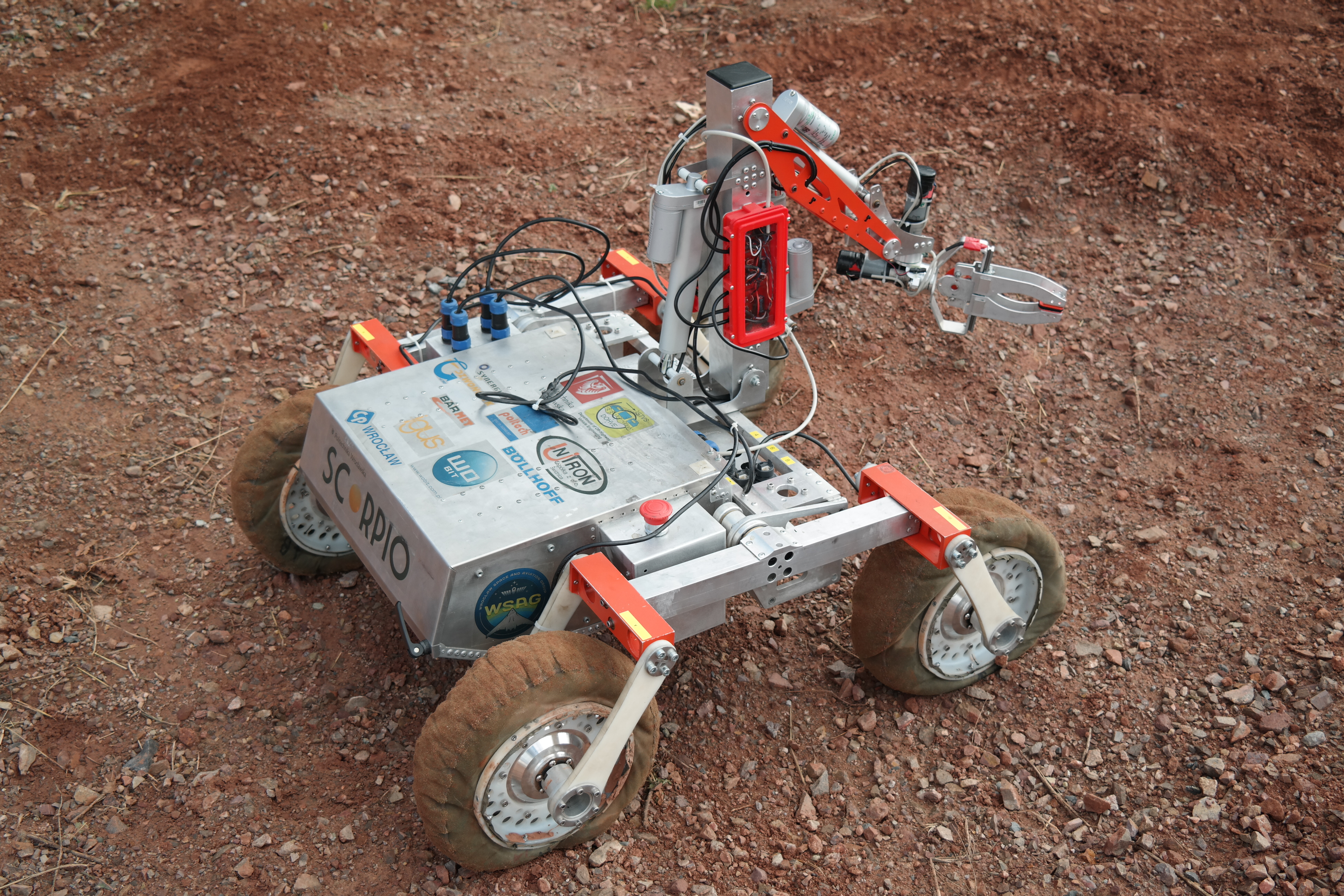 European Rover Challenge 2015, 5-6 September, Podzamcze near Chęciny near Kielce, Poland. Showcases on the track on the 6th of September. Rover Scorpio IV of Wrocław University of Technology (Politechnika Wrocławska), winner of the first European Rover Challenge in 2014, 3rd place in University Rover Challenge 2015 in USA (category), presented to the public.